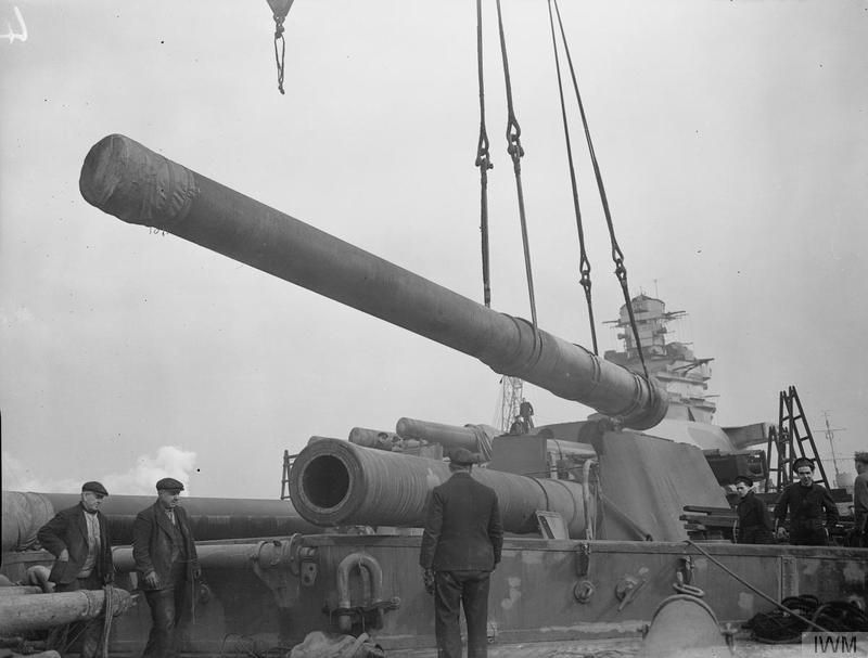 IWM caption : "Changing the 16 inch guns on HMS RODNEY at Cammel Laird shipyard, Birkenhead. Lowering a gun into position in "A" turret". See also : File:Installing 16 inch gun on HMS Rodney at Birkenhead Feb 1942 IWM A 7690.jpg File:Installing 16 inch gun on HMS Rodney at Birkenhead Feb 1942 IWM A 7691.jpg File:Installing 16 inch gun on HMS Rodney at Birkenhead Feb 1942 IWM A 7692.jpg File:Installing 16 inch gun on HMS Rodney at Birkenhead Feb 1942 IWM A 7694.jpg File:Installing 16 inch gun on HMS Rodney at Birkenhead Feb 1942 IWM A 7695.jpg